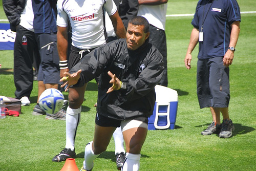 Photo of Waisale Serevi at the 2007 Wellington Sevens (rugby union).